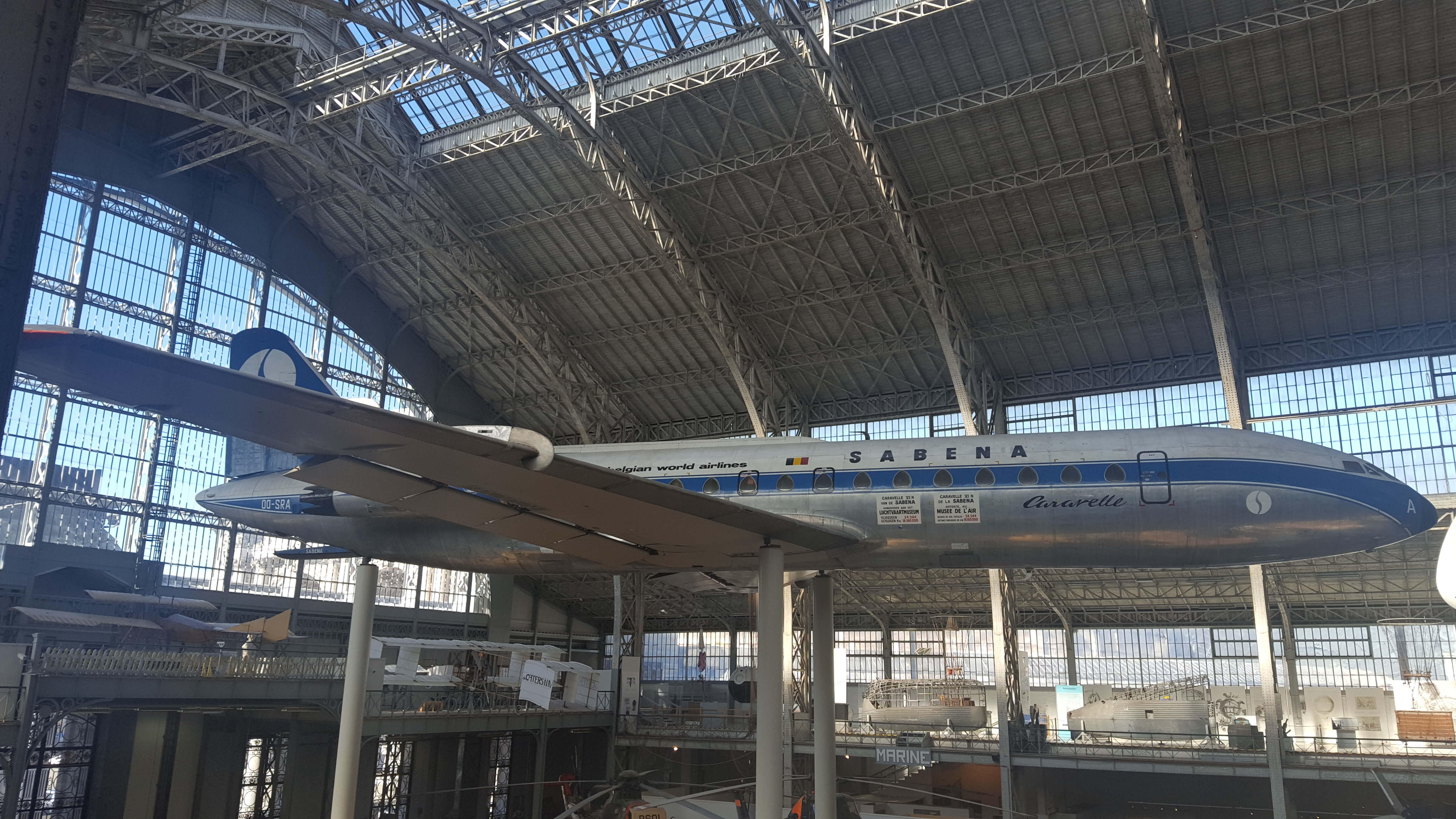 Sabena airplane in the Royal Museum of the Armed Forces and of Military History during Wiki Loves Art, Brussels, Belgium